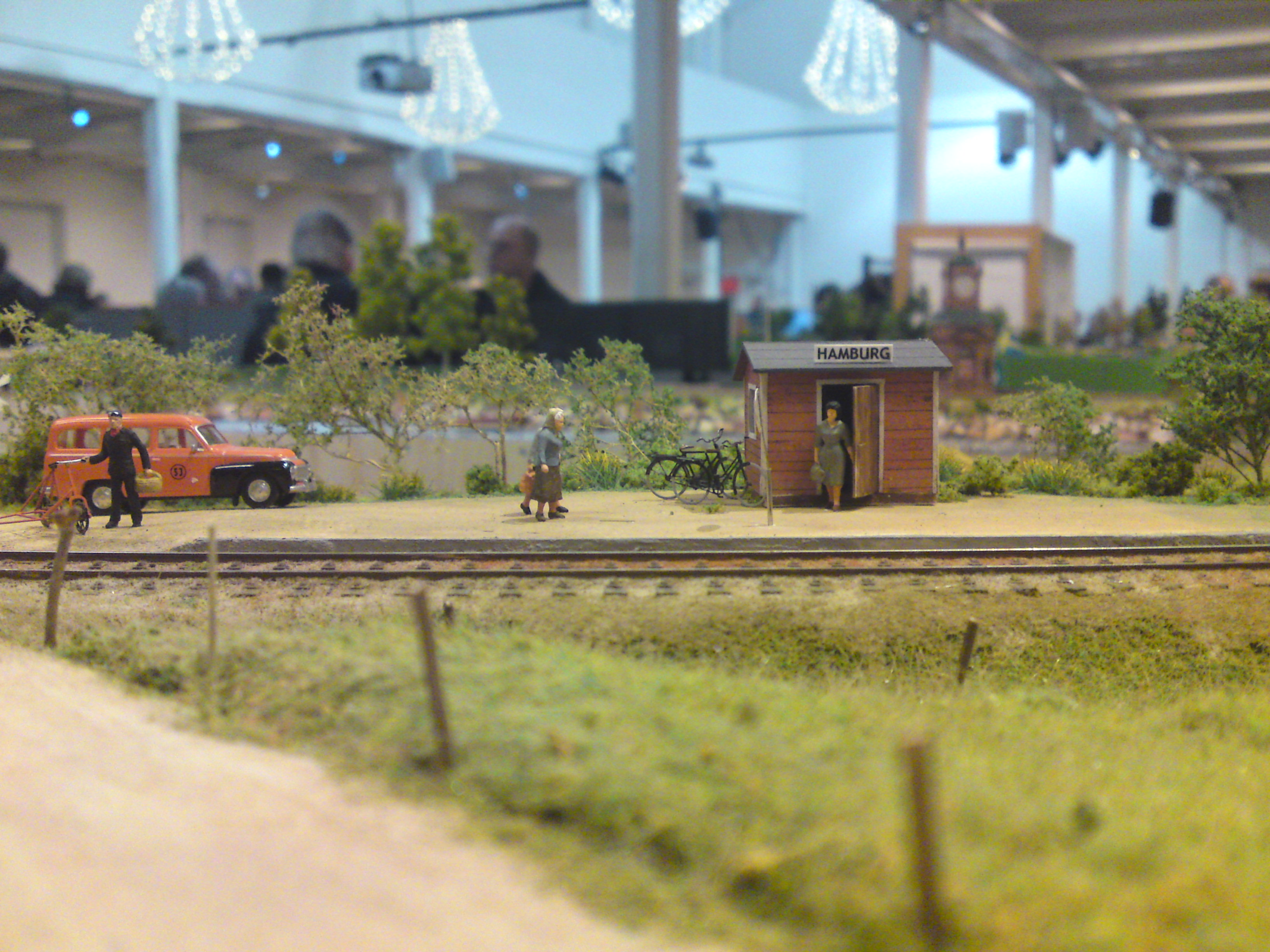 Modell of Hamburg halt outside of Valdemarsvik in Östergötland, Sweden